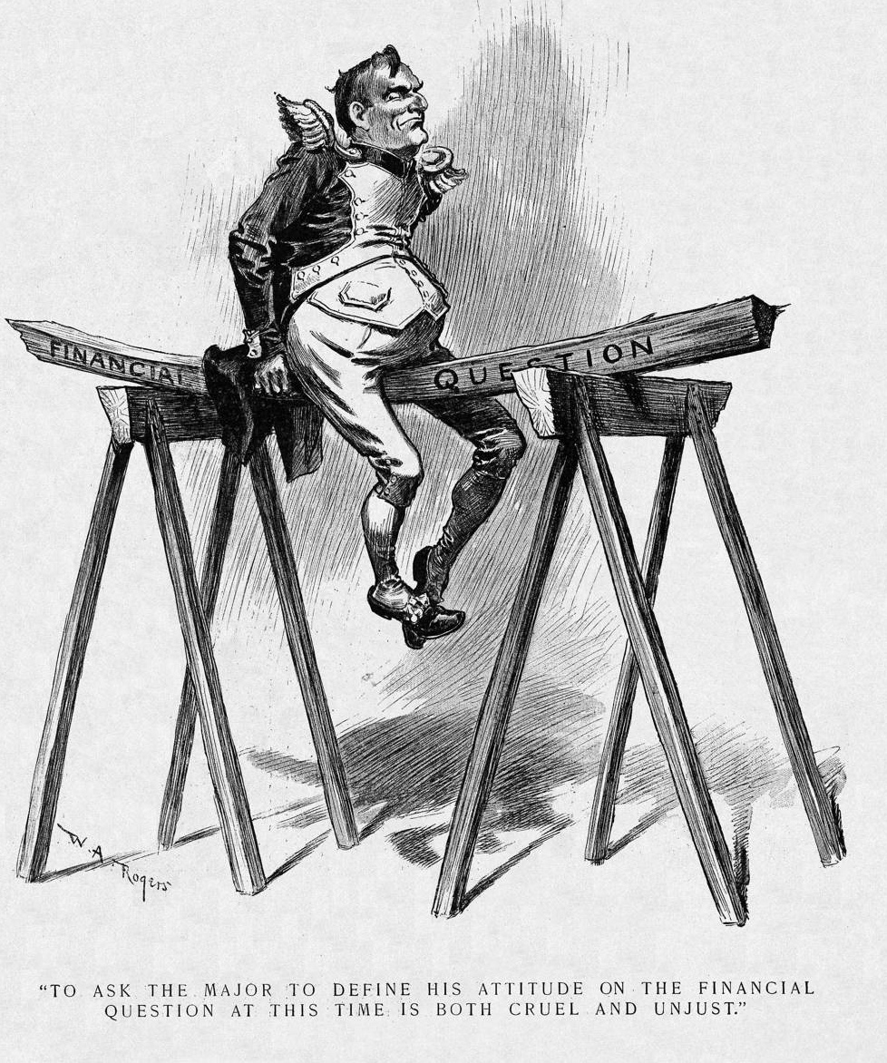 Harper's Weekly cartoon mocking Republican presidential candidate (prior to convention) William McKinley (dressed as Napoleon I) for trying to straddle the currency question.